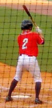 Grant Kay at bat for the Bowling Green Hot Rods in 2015